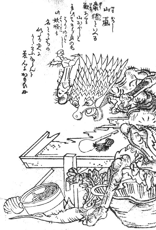 Yama-oroshi (山颪, A possessed vegetable grater, almost porcupine-like in appearance) from the Gazu Hyakki Tsurezure Bukuro (百器徒然袋)